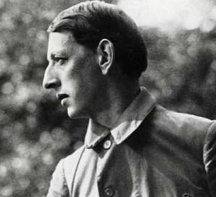 Photo of Swedish painter John Bauer (1882 -1918)